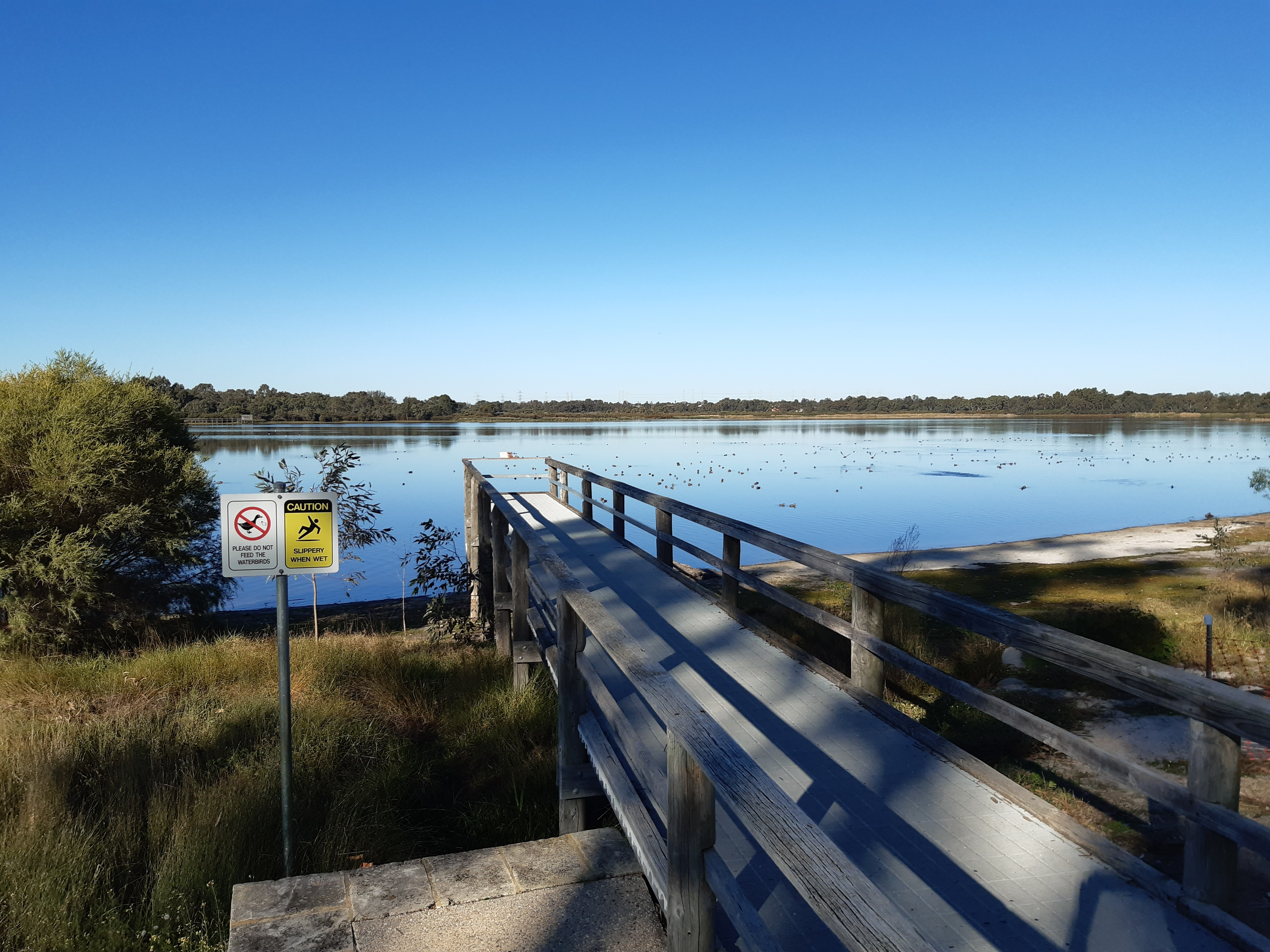 Bibra Lake, Western Australia: The little boardwalk on the eastern side, south of the playground.